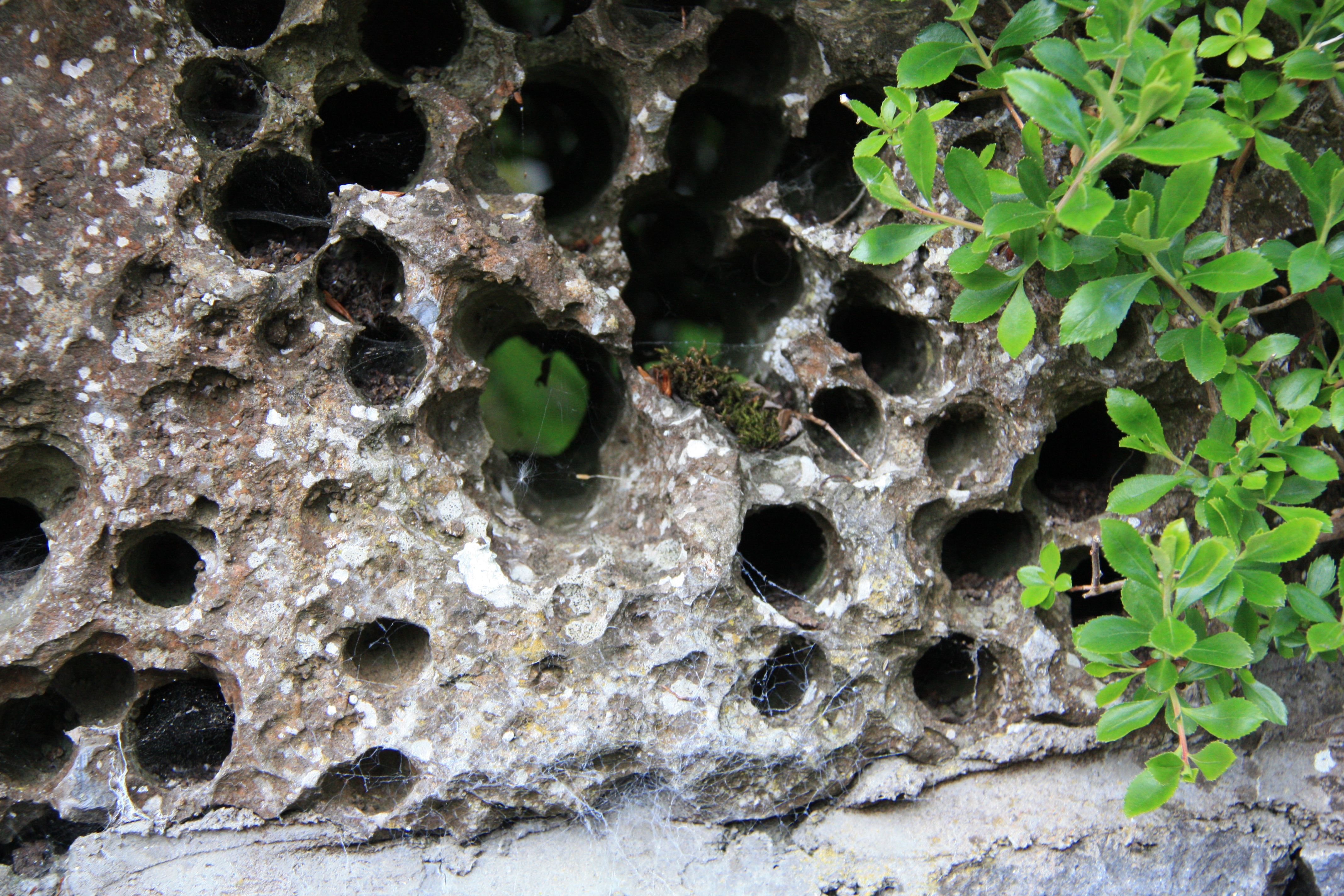 Stone broken out of karst-field near Knock